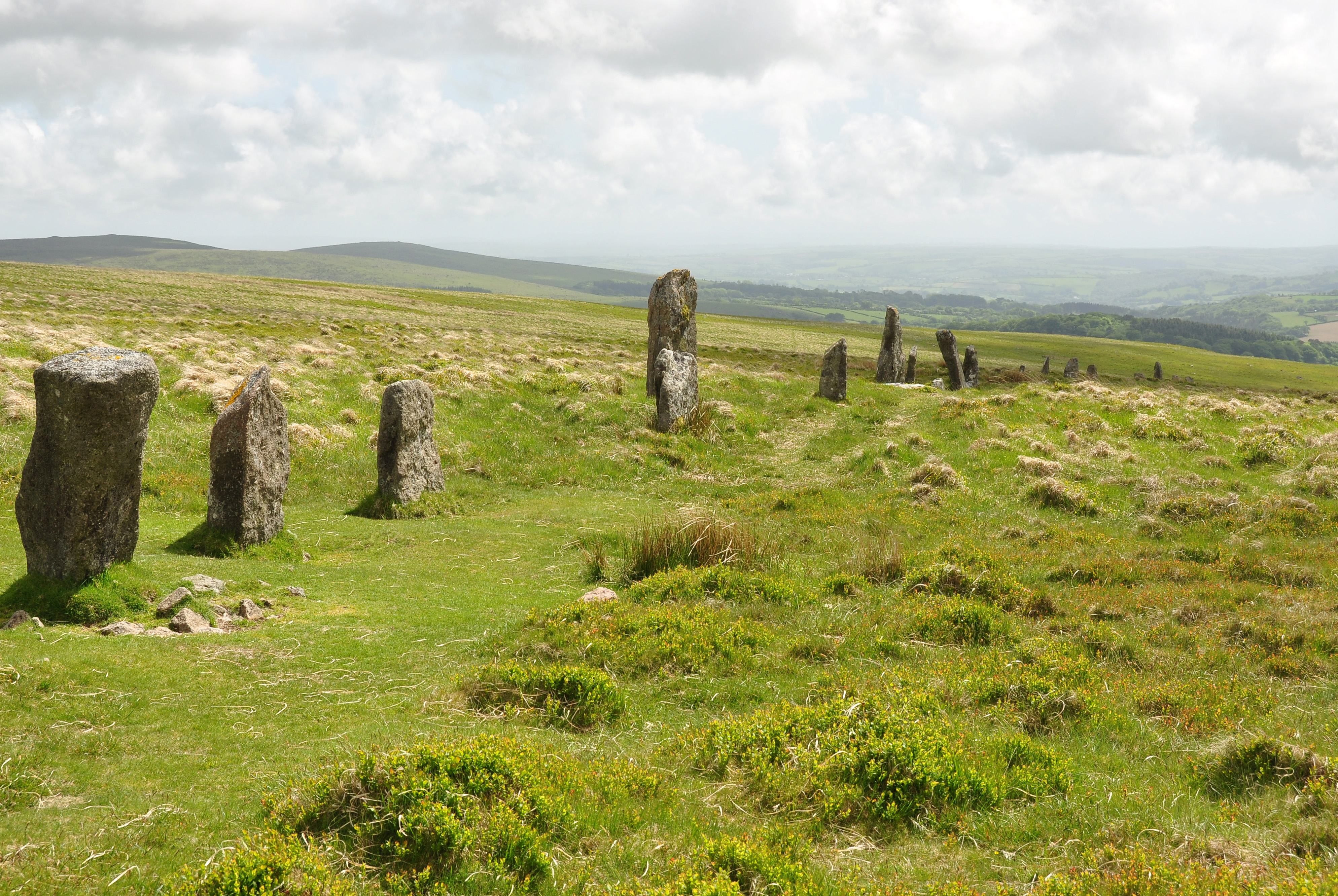 The stone row on Stall Down, on the southern edge of Dartmoor.